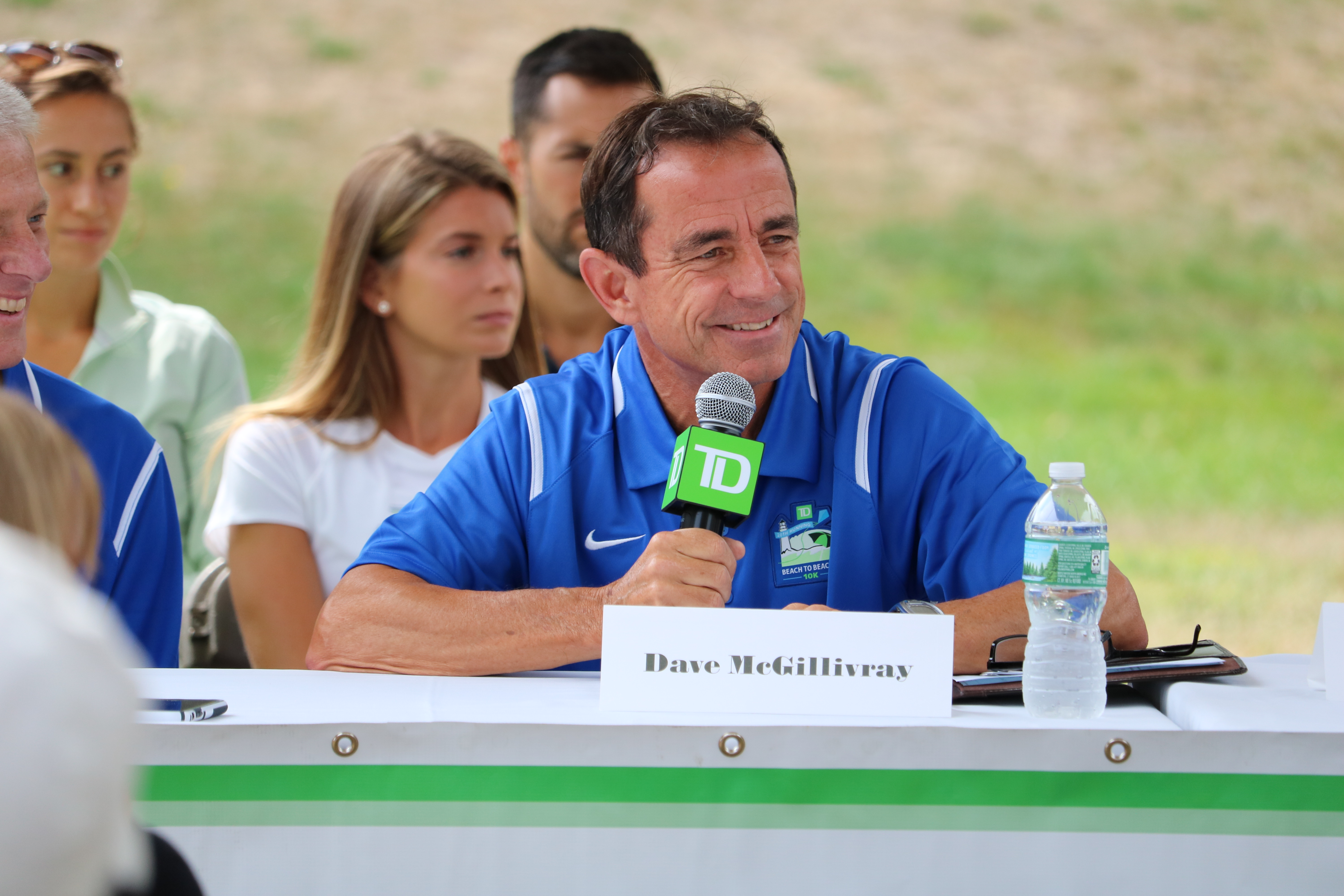 Dave McGillivray